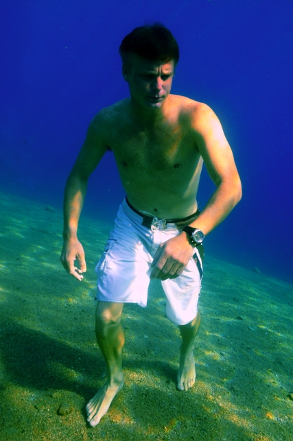 Marcus Greatwood, teaches freediving within NoTanx London based club.